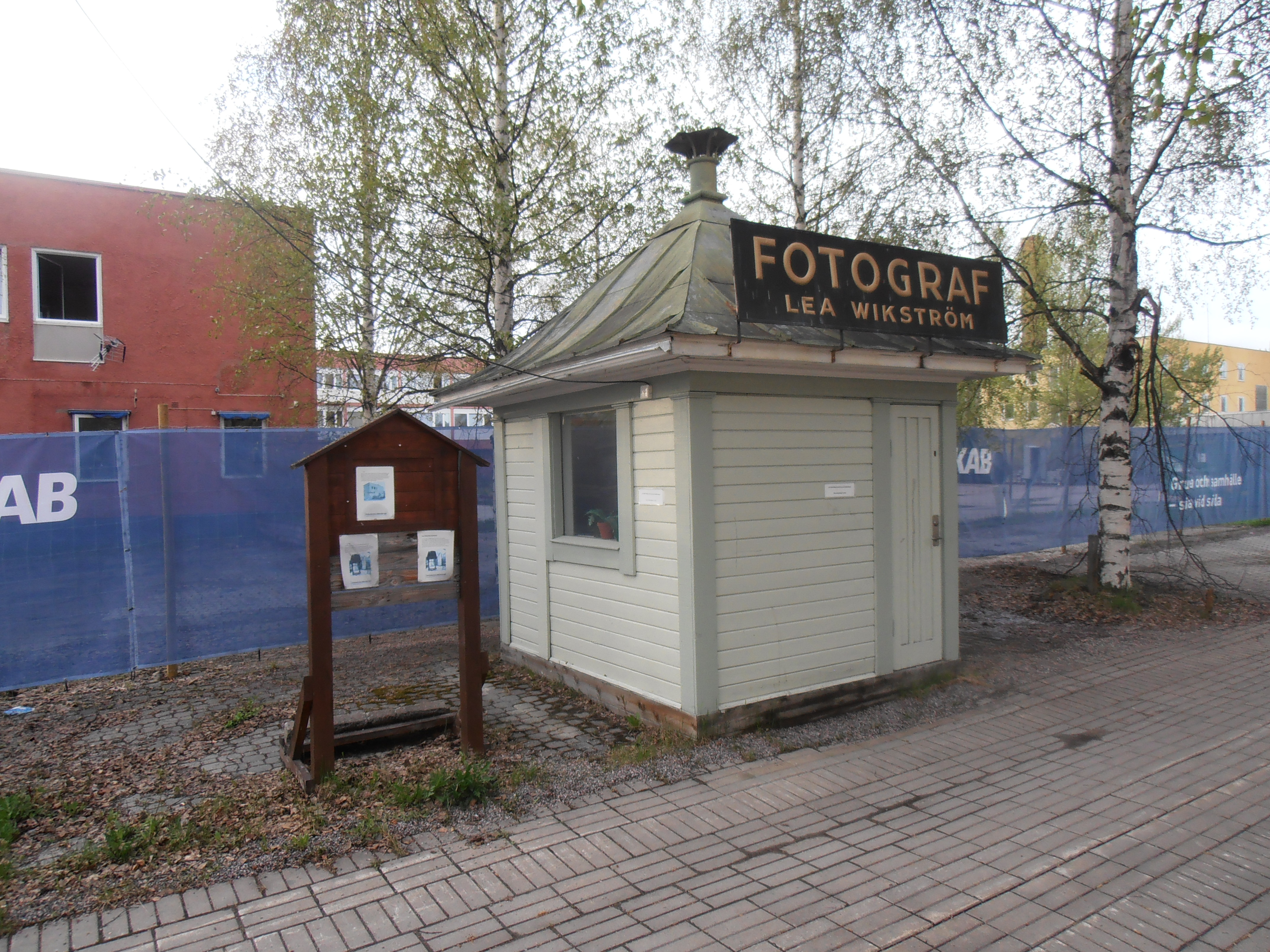 Lea Wikström's photo studio in Malmberget